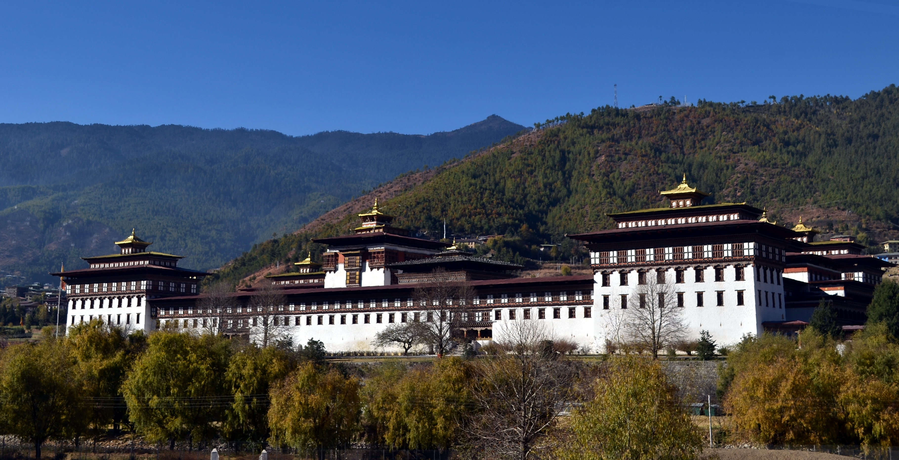 A view of Tashichö Dzong (eastern face),Thimphu, Bhutan